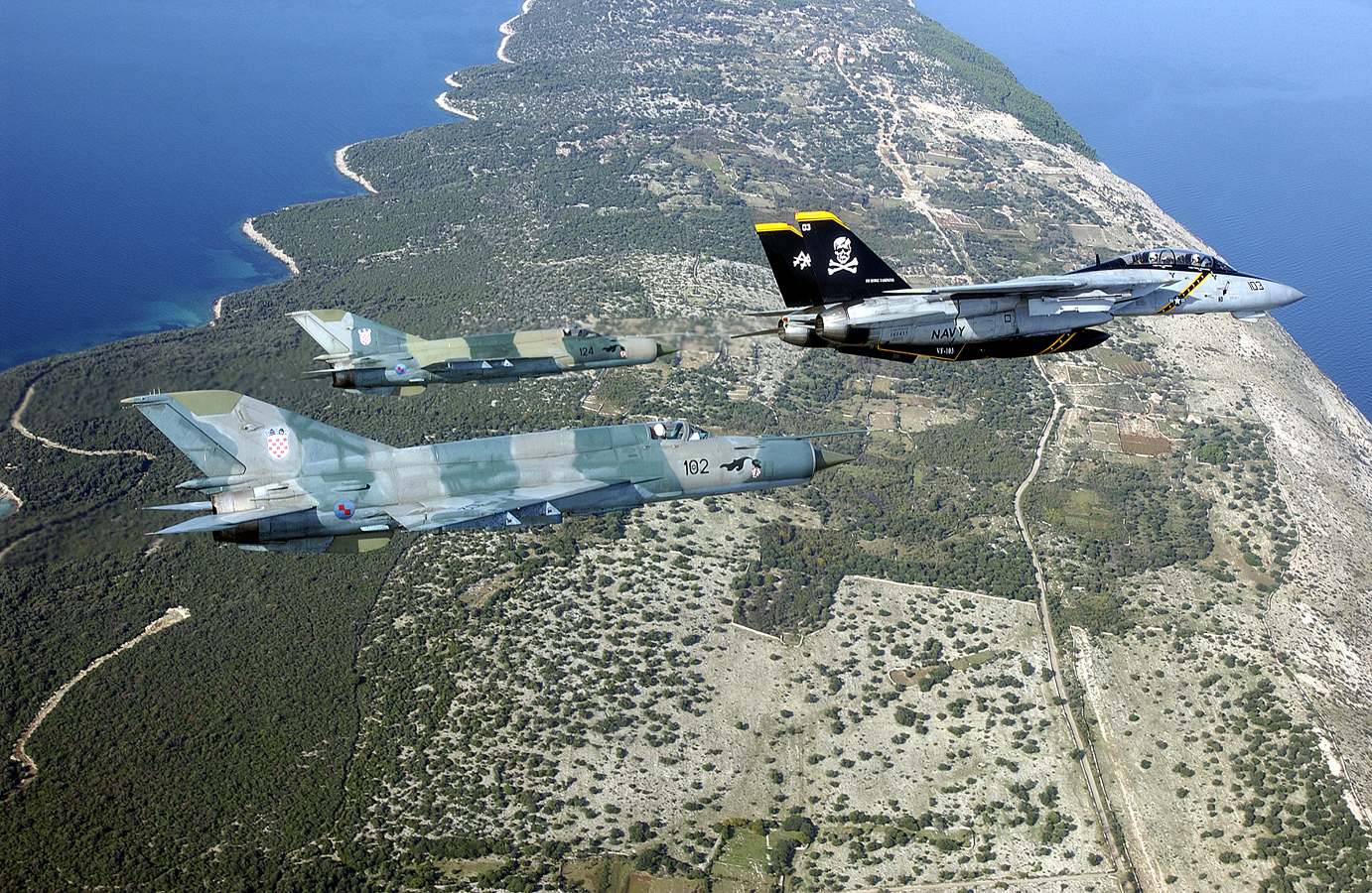 An F-14B "Tomcat" assigned to the "Jolly Rogers" of Fighter Squadron One Zero Three (VF-103) flies in formation with a pair of MiG-21’s assigned to the Croat Air Force. VF-103 is part of a detachment from Carrier Air Wing Seventeen (CVW-17) embarked aboard USS George Washington (CVN 73) participating with the Croat Air Force in Joint Wings 2002. Joint Wings is a multinational exercise between the U.S. and the Croat Air Force designed to practice intelligence gathering. George Washington is homeported in Norfolk, Va., and is nearing the end of a scheduled six month deployment after completing combat missions in support of Operations Enduring Freedom and Southern Watch.